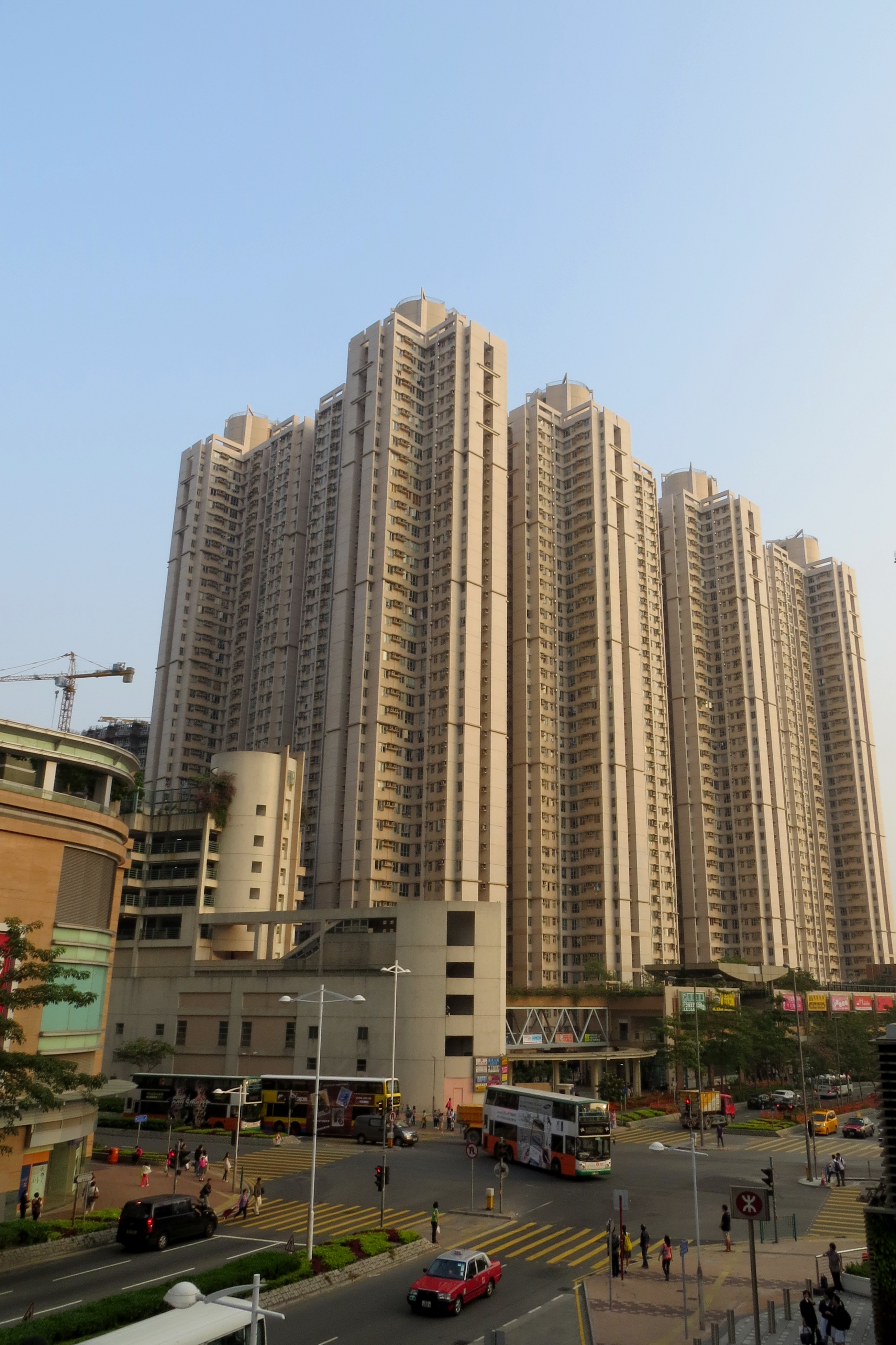 Bauhinia Garden at the intersection of Tong Chun Street and Po Yap Road, Tseung Kwan O, Hong Kong.